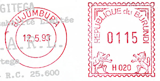 Meter stamp catalog image, Burundi type 2